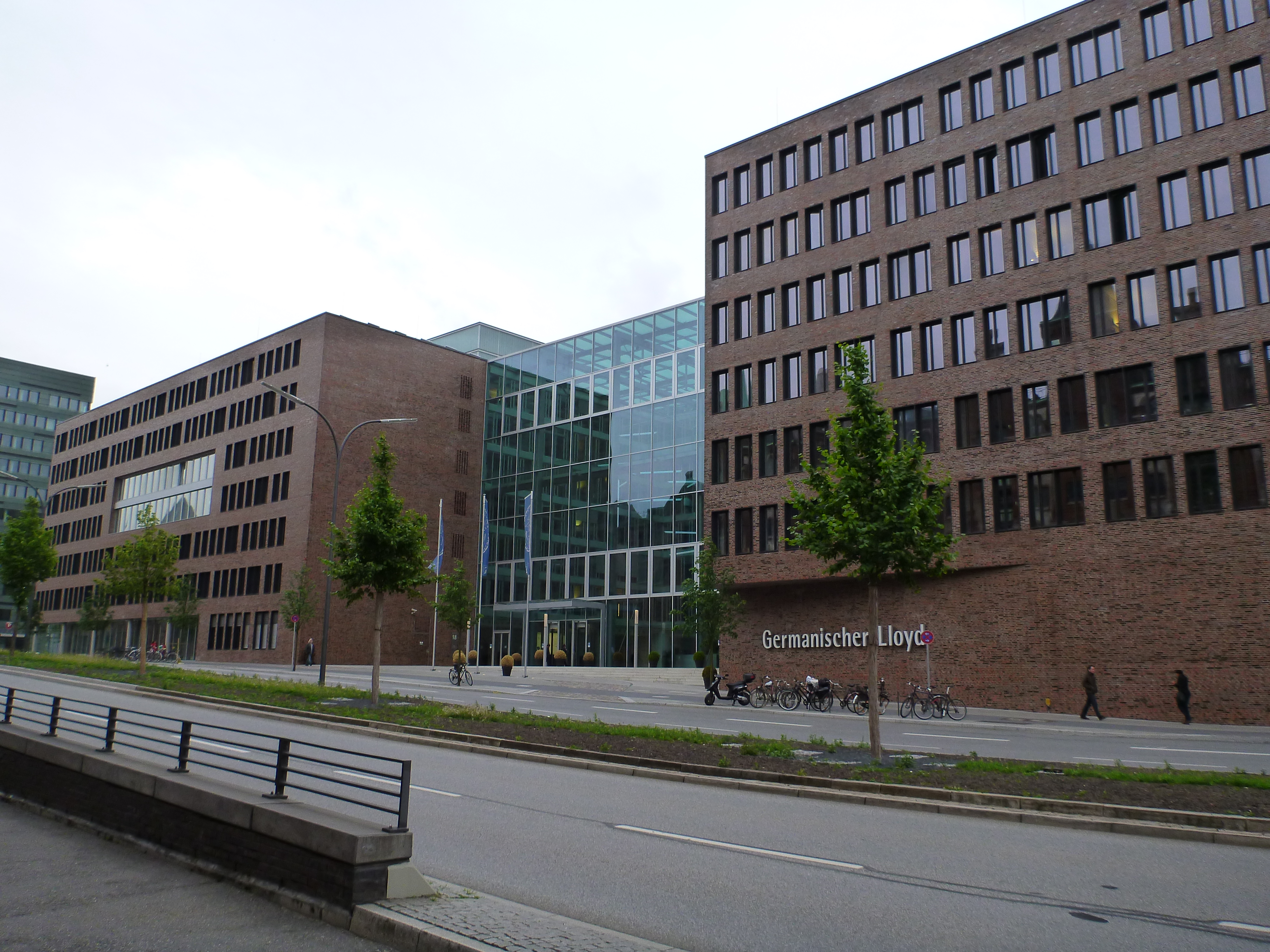 Main building of the Germanischer Lloyd in Hamburg, Brooktorkai 18 from west